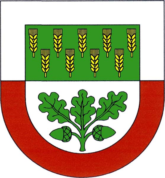 Municipal coat of arms of Káraný village, Prague-East District, Czech Republic.